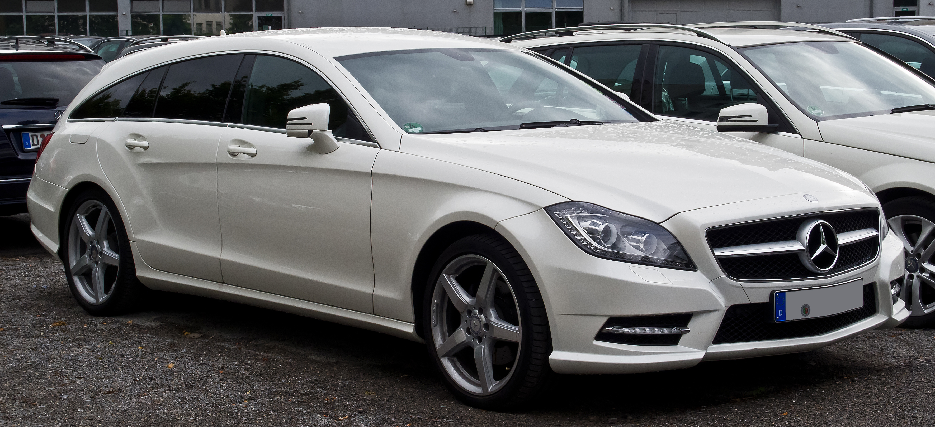 Mercedes-Benz CLS 350 CDI Shooting Brake Sport-Paket AMG (X 218)